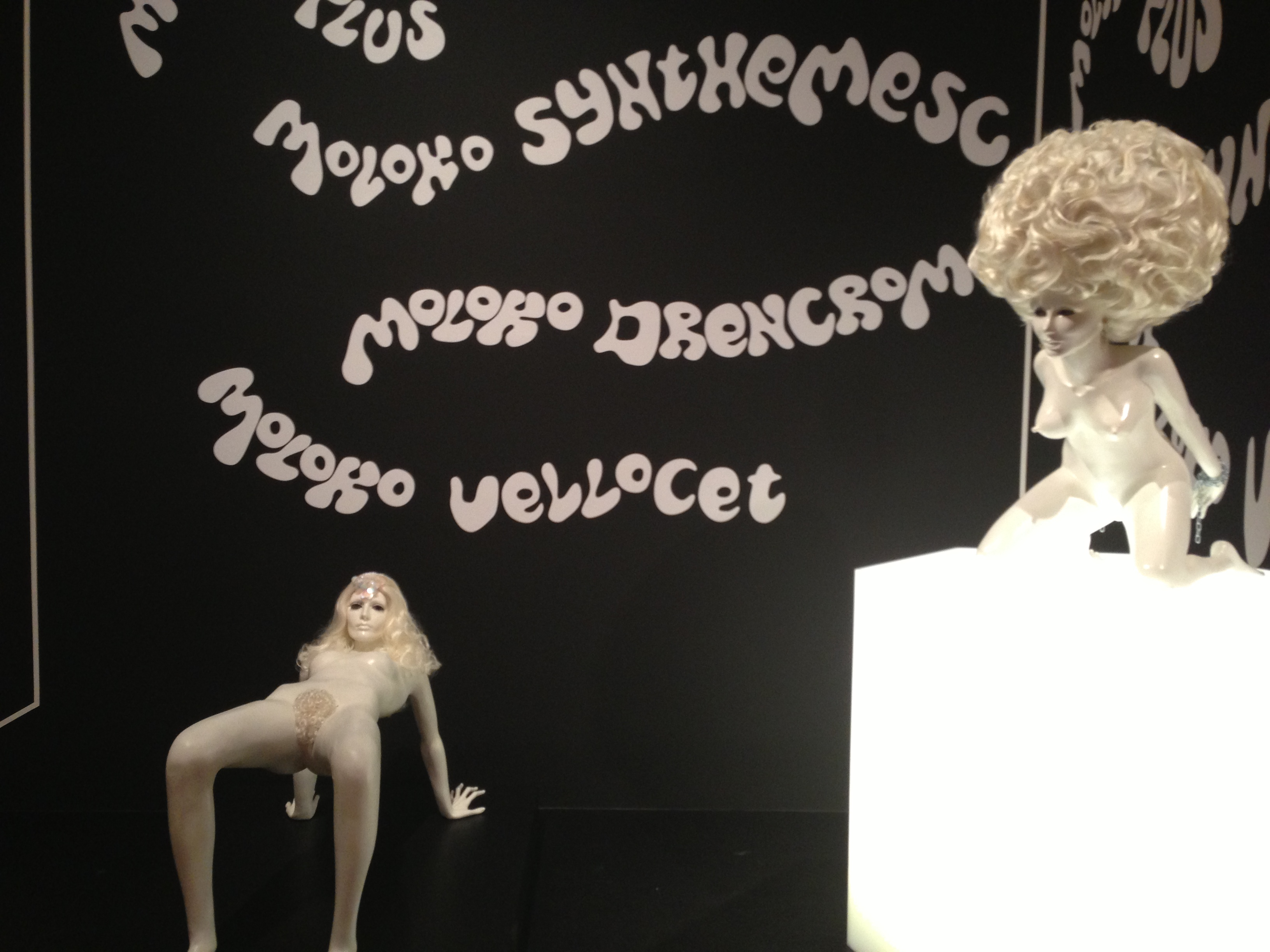 Stanley Kubrick exhibit at Los Angeles County Museum of Art.